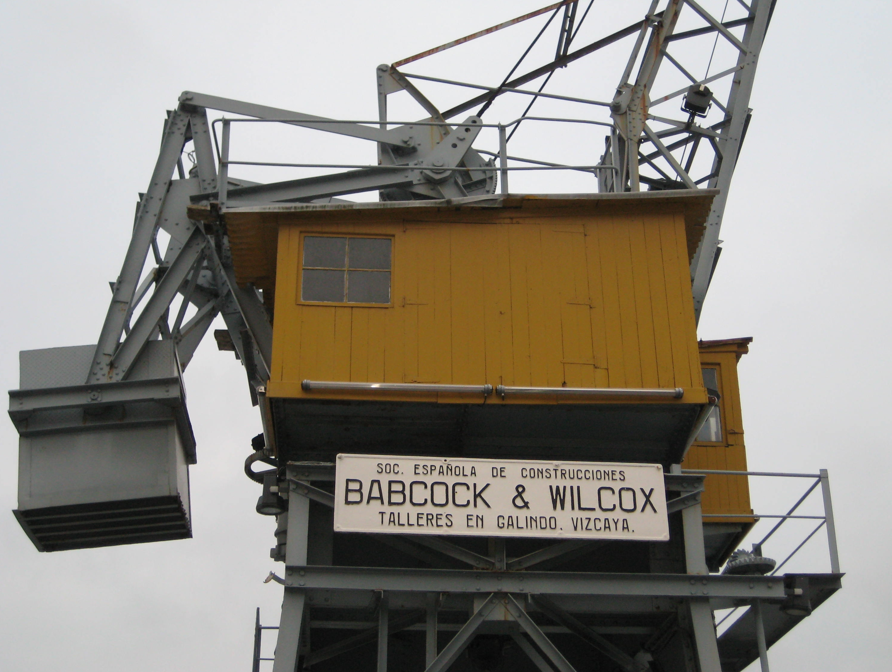 Crane at the port of San Esteban de Pravia, Muros de Nalon, Asturias, Spain.